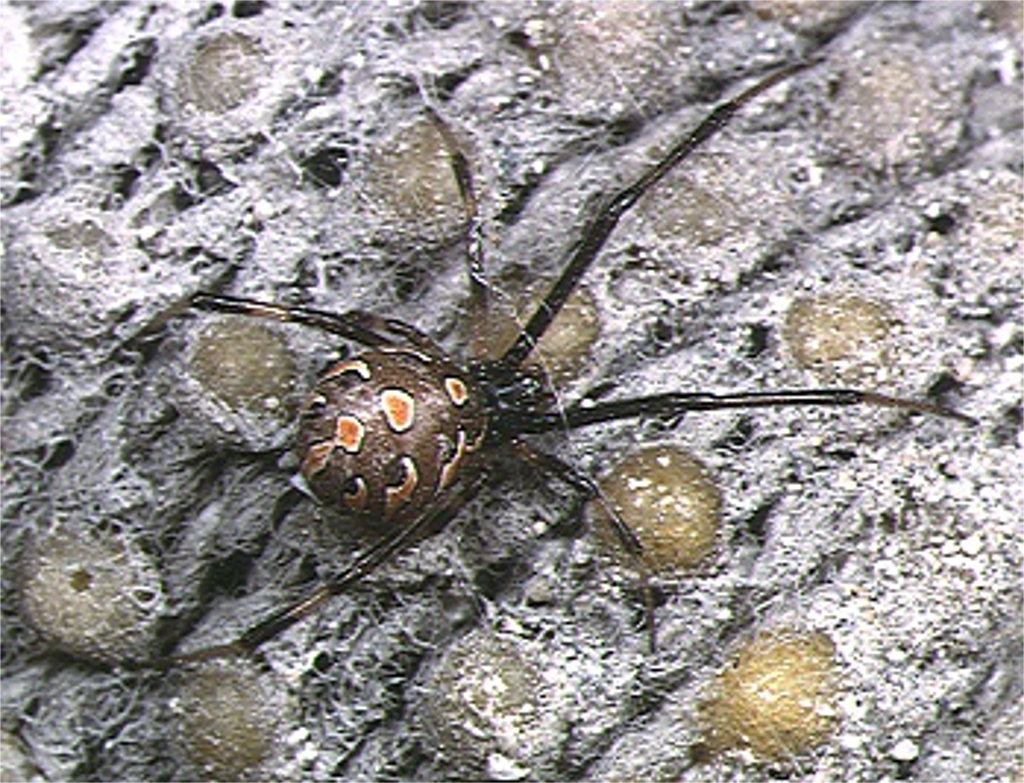 female Latrodectus geometricus from Okinawa.